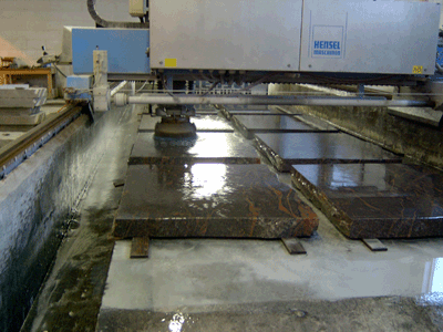 A photo from (polish) Taken by Halvard from Norway.